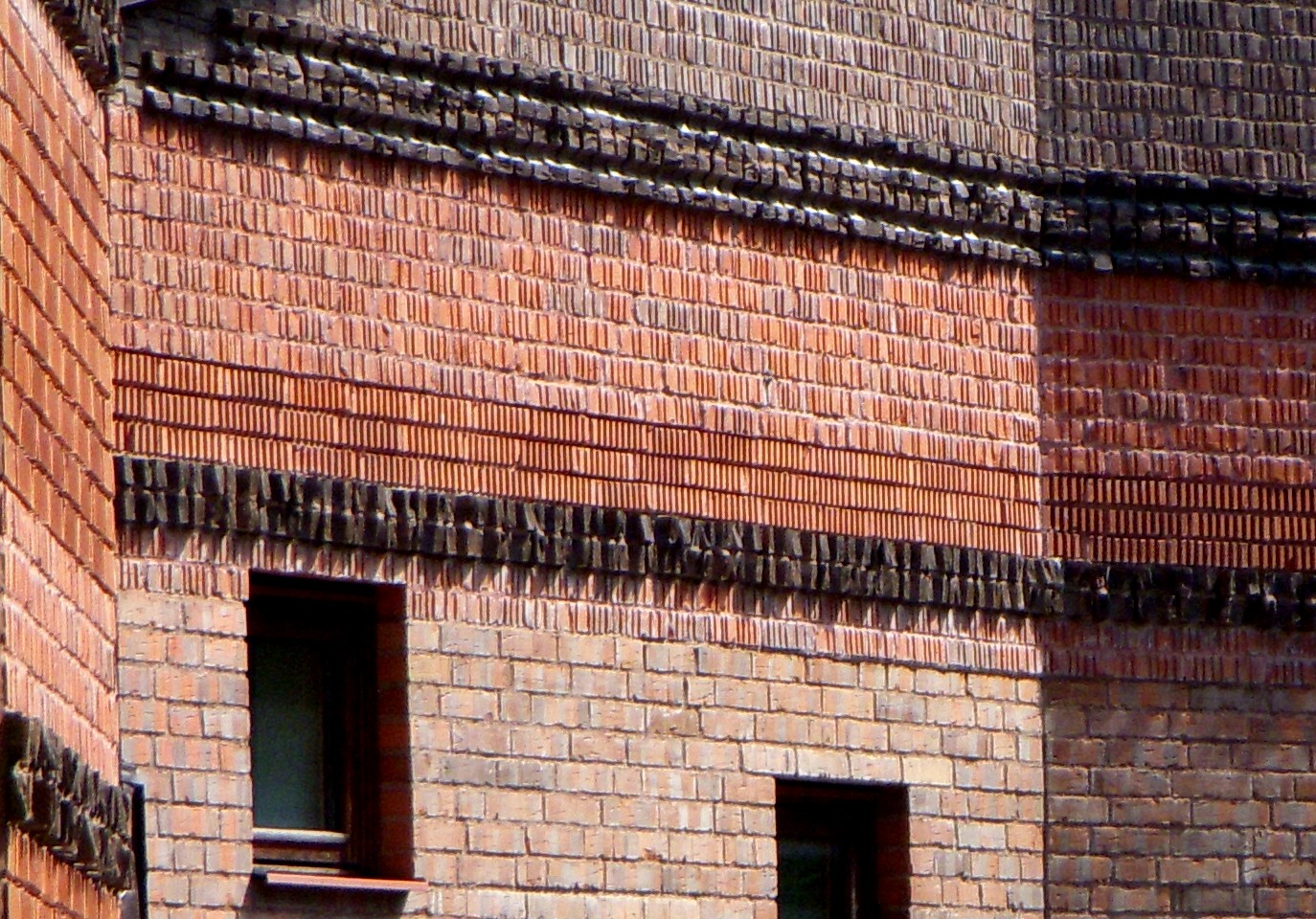 Decorative masonry at Aula Magna, Stockholm University